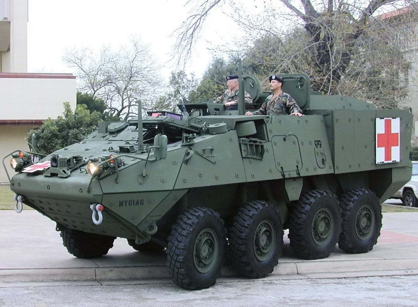 M1133 Medical Evacuation Vehicle Original caption: "The Stryker medical evacuation vehicle has the mobility to keep up with war-fighting forces. Moving at sustained speeds of up to 60 mph, it can evacuate four litter patients or six ambulatory patients while its crew of three medics provides basic medical care. Its centrally located medical attendant seat and high roof allow a medic to monitor medical equipment and provide some patient care (do CPR or start an IV, for example). Stryker also accommodates more medical supplies and equipment than its predecessor ambulances. The first Stryker MEVs were delivered to the Stryker Brigade Combat Team, Fort Lewis, Wash., in March 2003."